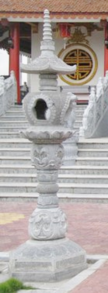 Vietnamese stone lantern